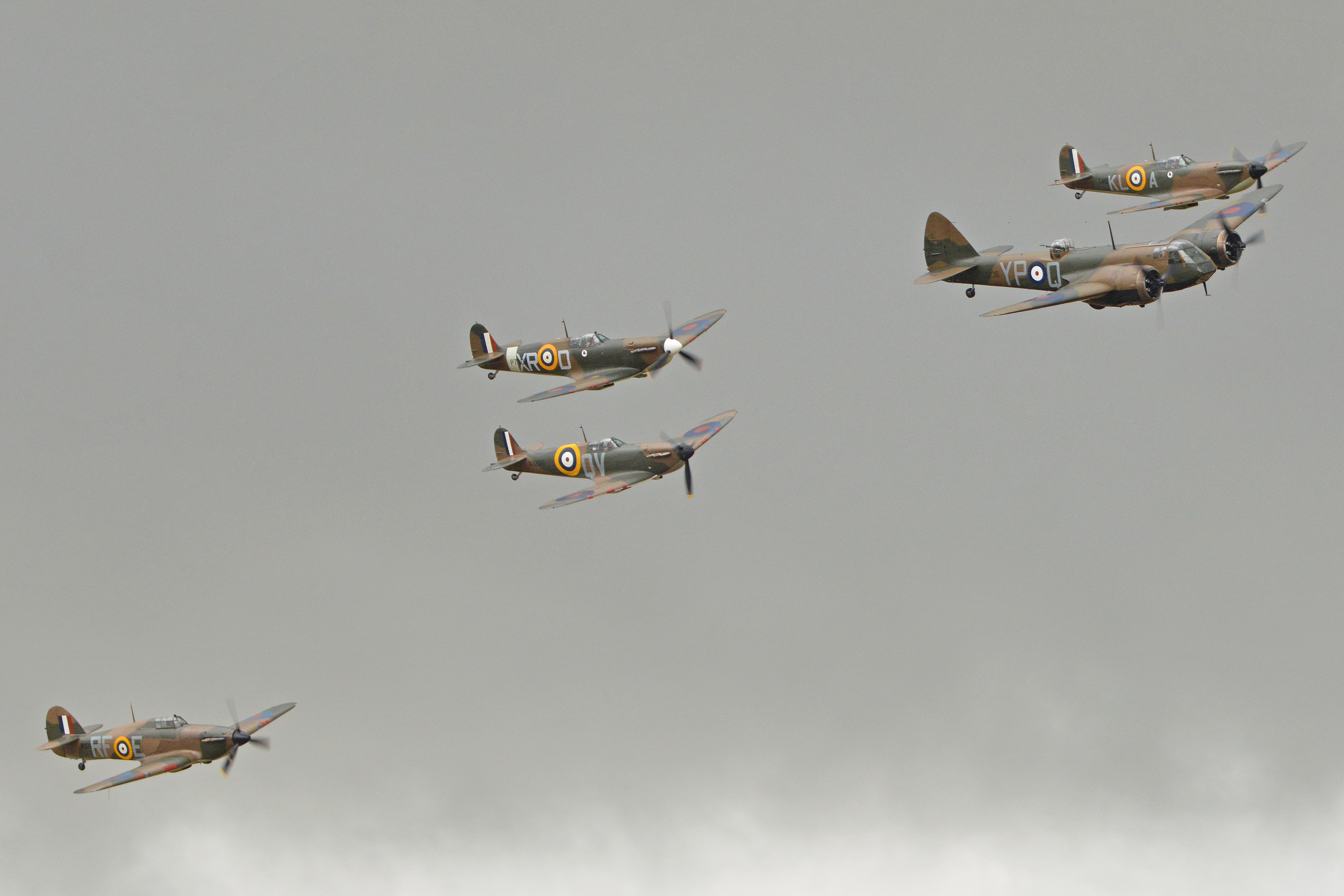 This stunning formation of Battle of Britain types is led by the newly restored Blenhiem, now representing a MkI. Around her are three MkI Spitfires, while a lone Hurricane brings up the rear. The Blenhiem is actually Bolingbroke '10201' (G-BPIV) The Spitfires are:- N3200 (G-CFGJ) in genuine 19sqn markings, X4650 (G-CGUK) in genuine 54sqn markings as 'KL-A' and AR213 (G-AIST) painted as 'P7308 / XR-D' of 71(Eagle)sqn. Finally, the Hurricane is 'G-HURI', a Canadian built MkXII, painted as P3700 / RF-E of 303sqn. 2015 Flying Legends airshow. Duxford, UK. 12-7-2015